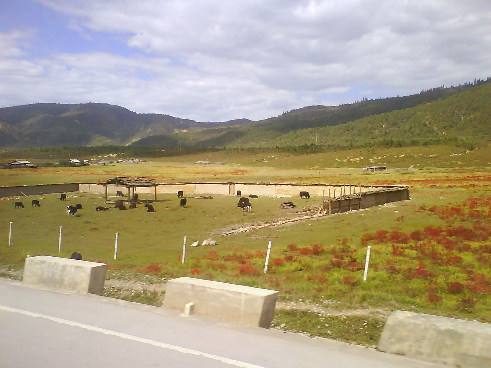 Some red plants and yaks in end of september on Yunnan province part of Tibetan plateau.